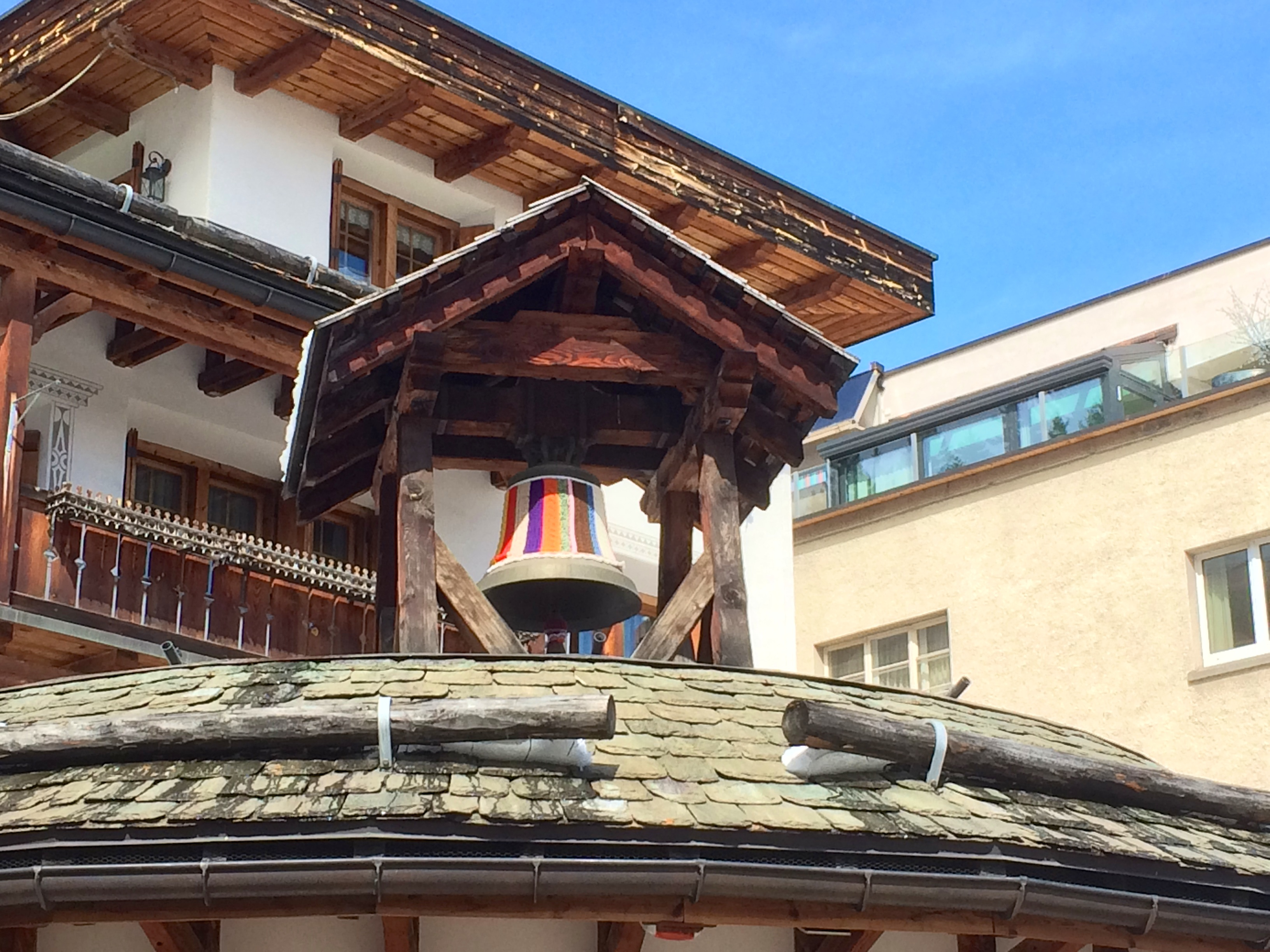 knitted bell of former Englisch Church in Arosa/Switzerland (winter 2013/14)